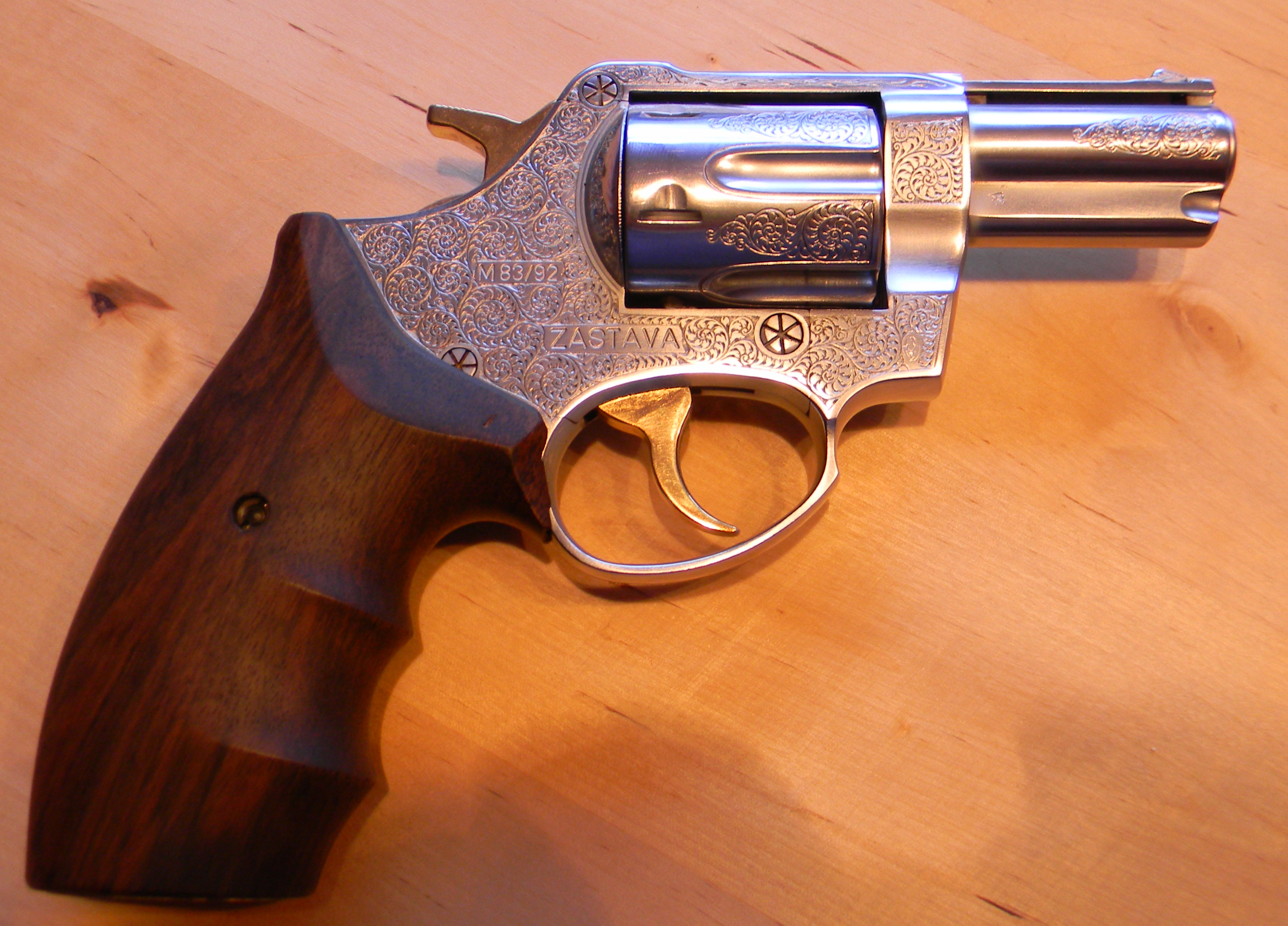 Застава М83 револвер у калибру .357 Магнум.